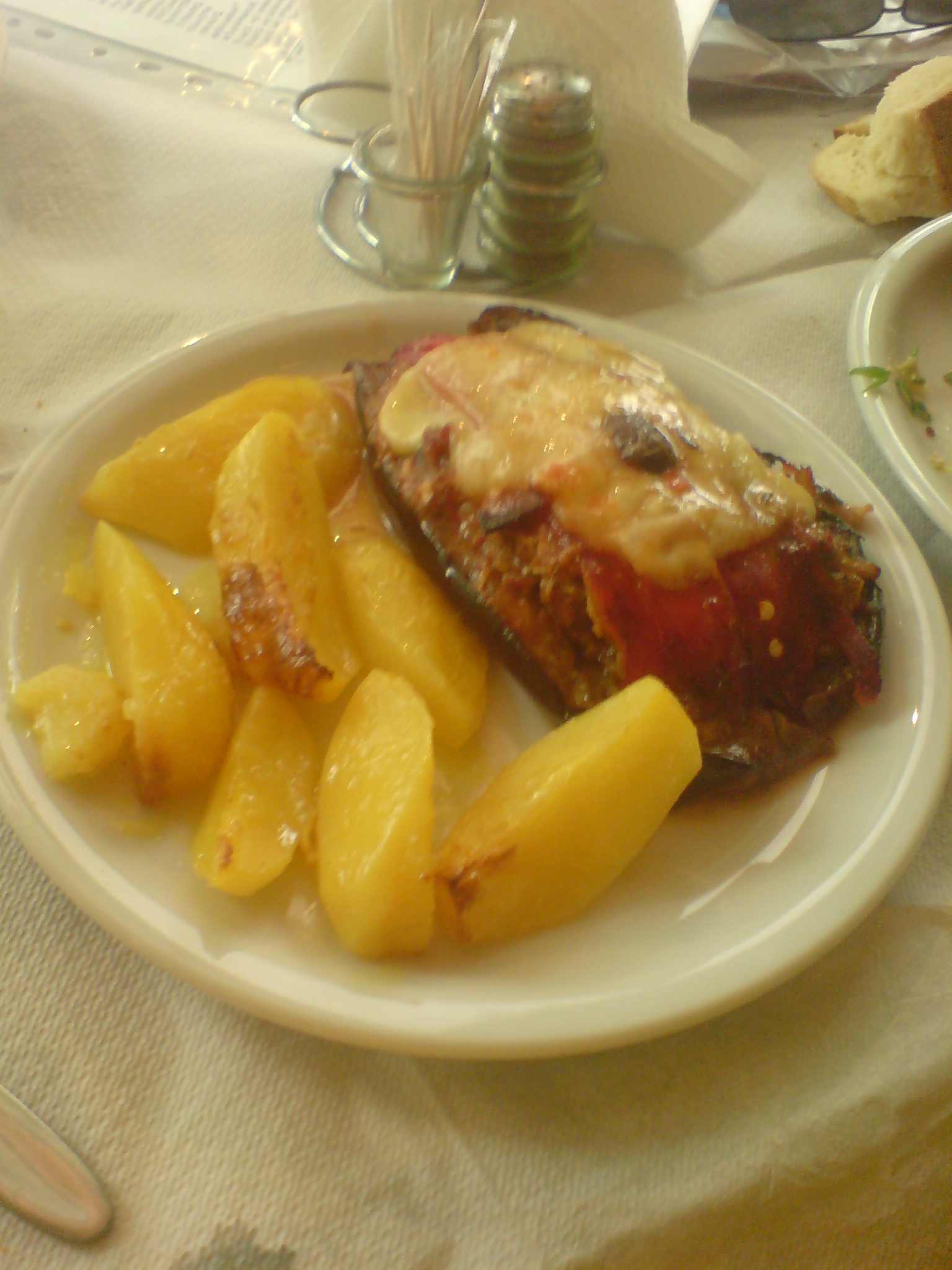 Melantzana gemisthi